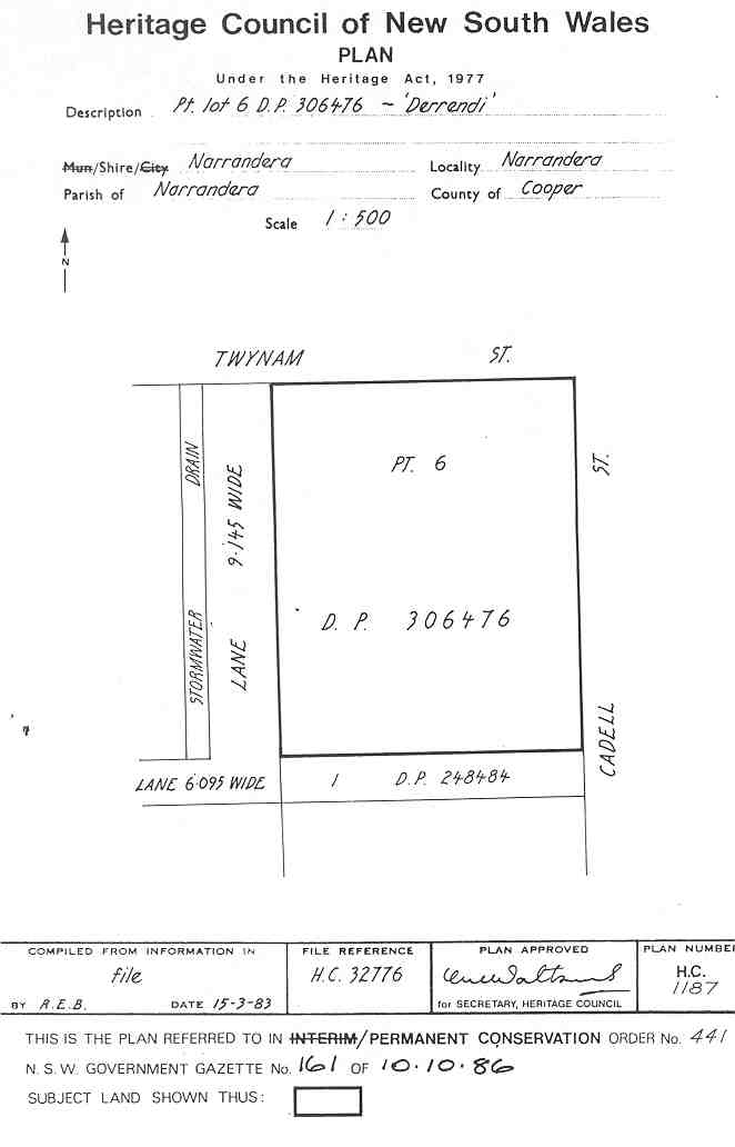 Derrendi, Narrandera: PCO Plan Number 441